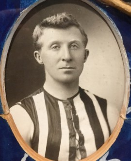 Photograph of Charlie Norris in 1910